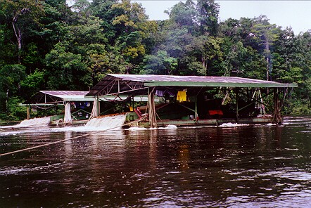 photograph of a dredger (or "missile") taken by User:CPMcE in 1999, for Potaro River article.